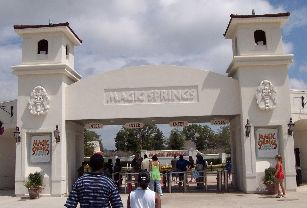 I took picture